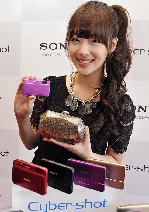 Sulli at the DSC-TX55 picture event on September 22, 2011.